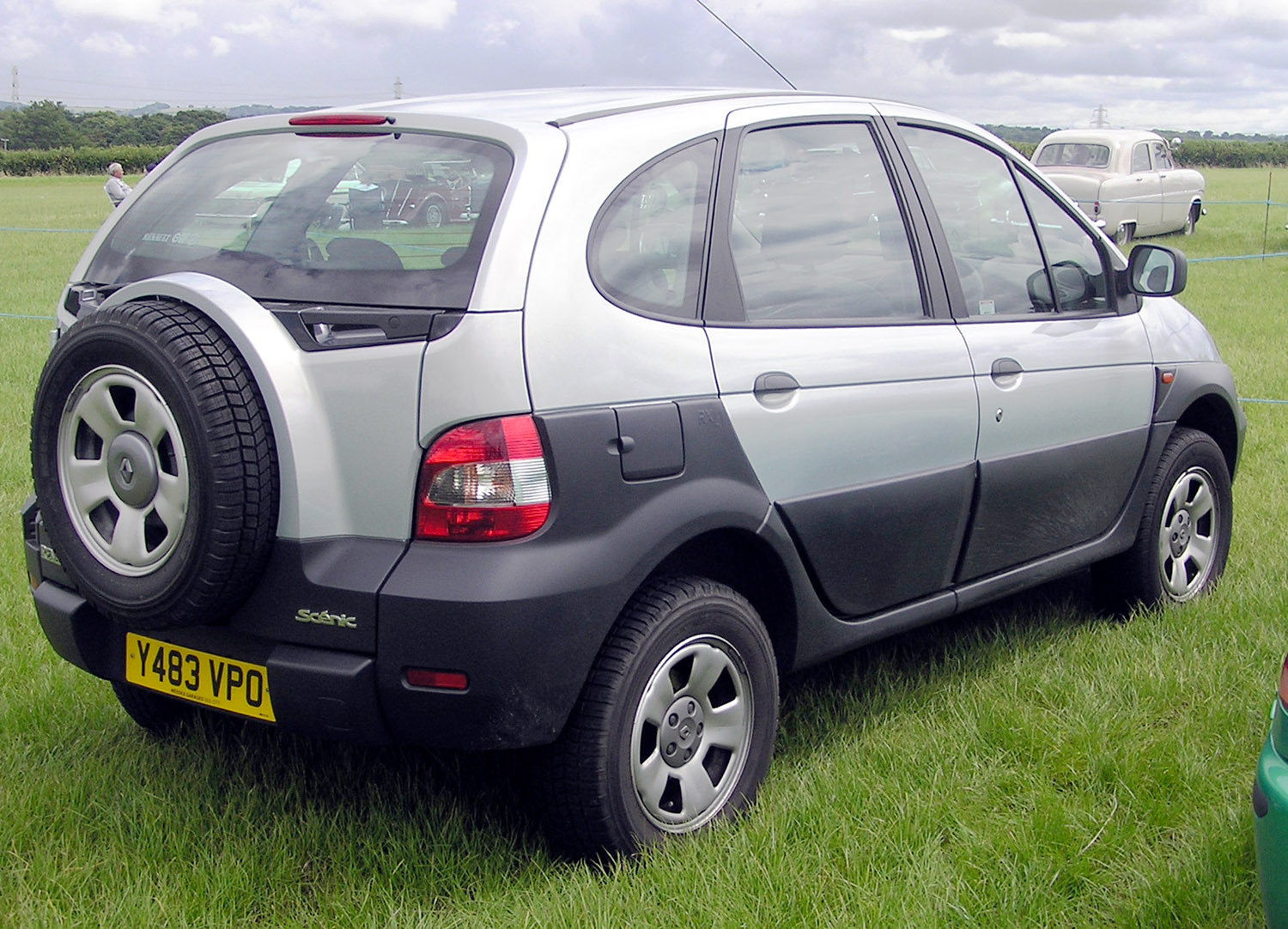 2001 Renault Scenic at Coalpit Heath Car Show, near Bristol, England. Taken by Adrian Pingstone in July 2004 and released to the public domain.